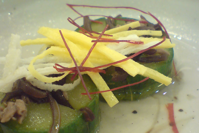 Oiseon, steamed stuffed cucumber in Korean cuisine.